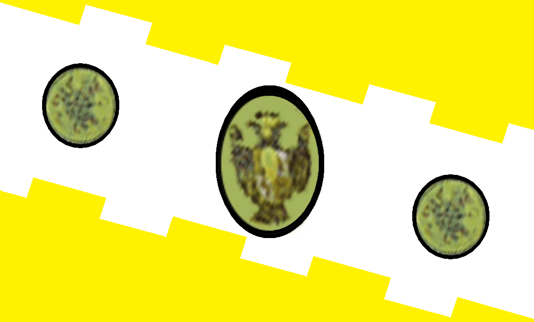 Flag of Comayagua, Honduras.